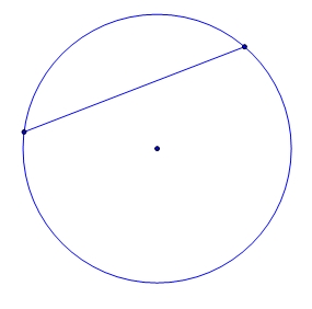 diagram showing a chord of a circle